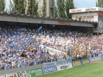 LS en finale de coupe suisse